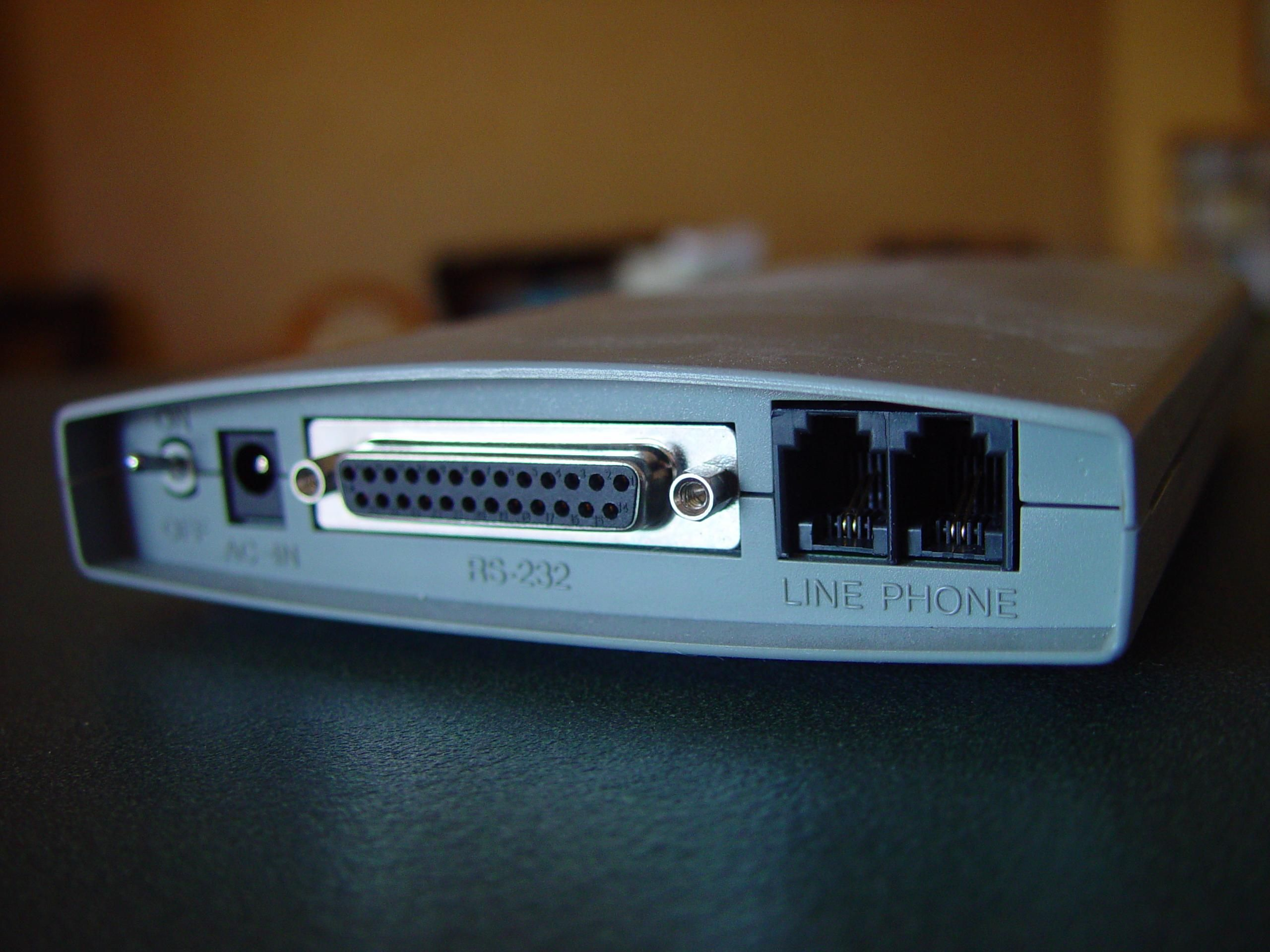 Image title: External dialup modem back panel Image from Public domain images website